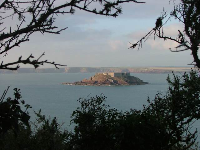 Thorn Island near Angle. Thorn Island framed by branches taken from footpath leading from West Angle bay to East blockhouse battery